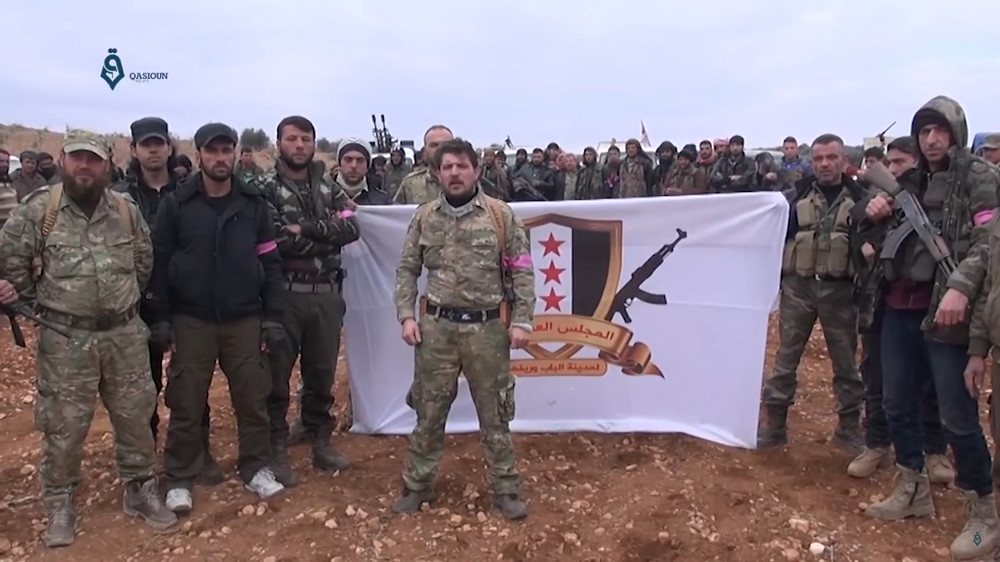 Fighters of the al-Bab military council declare on 10.02.2017 that they would capture al-Bab from ISIL in the next few hours (They eventually took control of the town two weeks later).